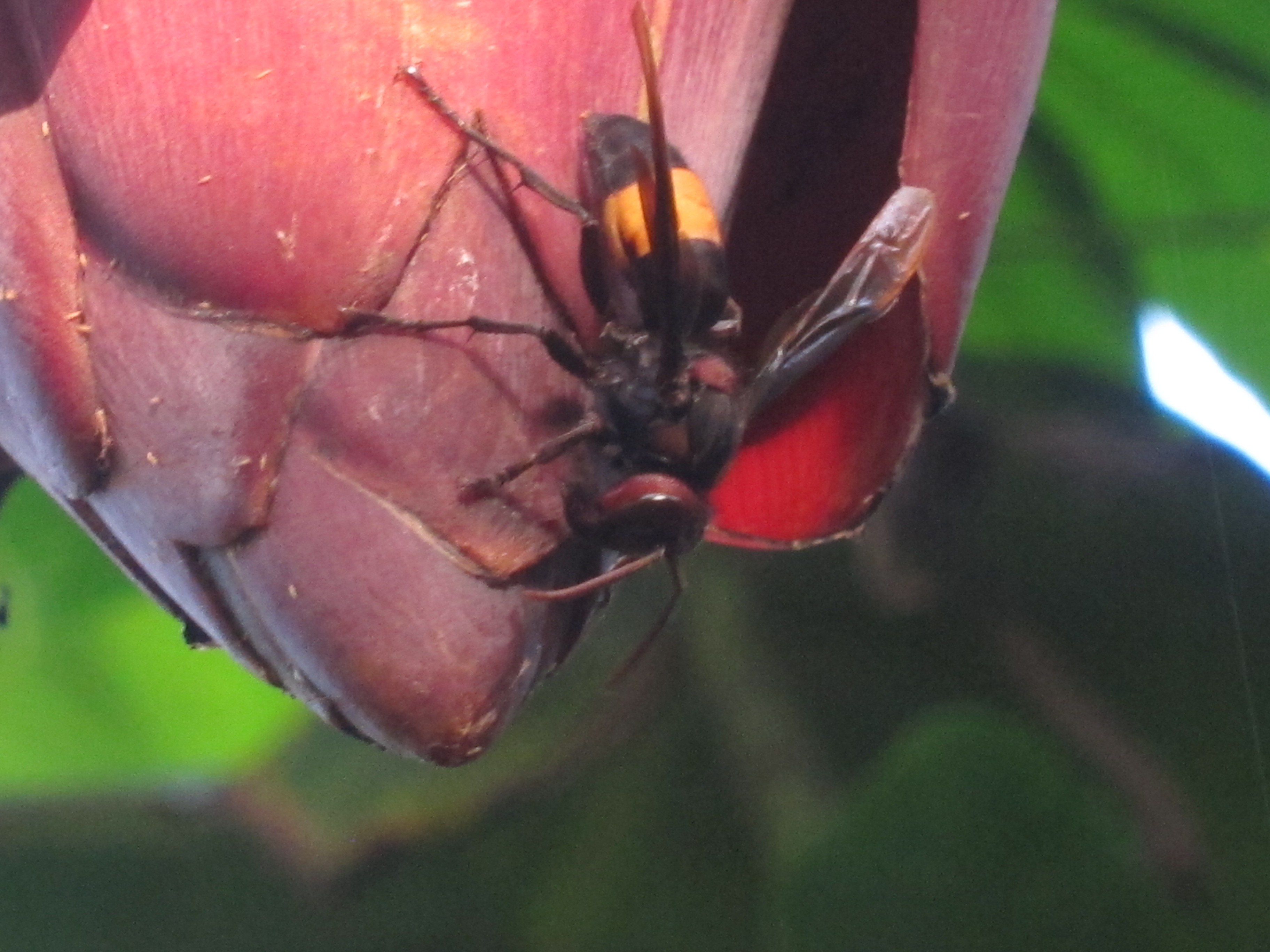 Hornet - കടന്നൽ, കടുന്നൽ, കടന്തൽ Hymenoptera